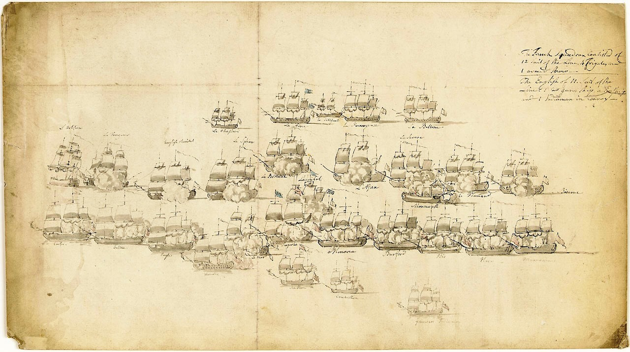 Sketch of the Battle of Provédien, April 12, 1782, near Trincomale on the coast of Ceylon. The names of the French and British ships are reported.